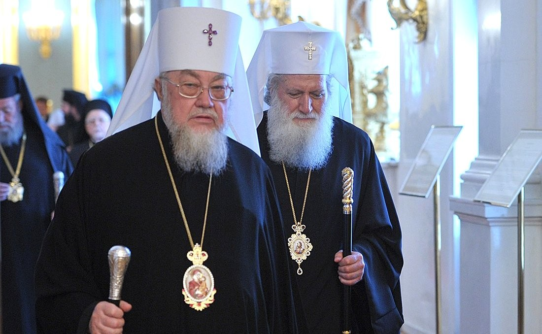 Metropolitan Sawa of Warsaw and all Poland and patriarch Neophite of Bulgaria during the meeting of Orthodox leaders with Russian president Vladimir Putin, 25 July 2013